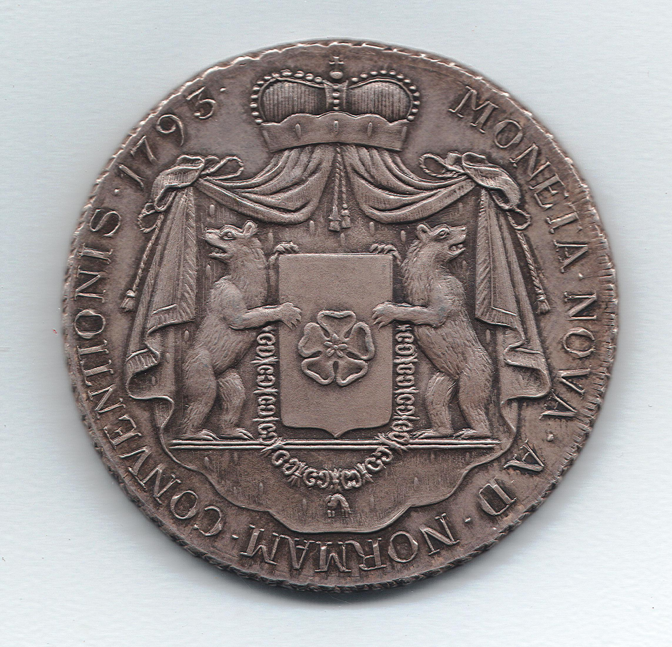 Franz Prince Orsini-Rosenberg Thaler 1793 reverse Johann Wirt engraver